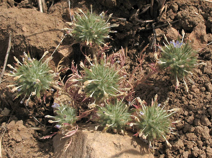 Navarretia pubescens. Santa Monica Mountains National Recreation Area, California, USA. Taken at Paramount Ranch: Medea Creek Trail. NPS photo, no copyright.